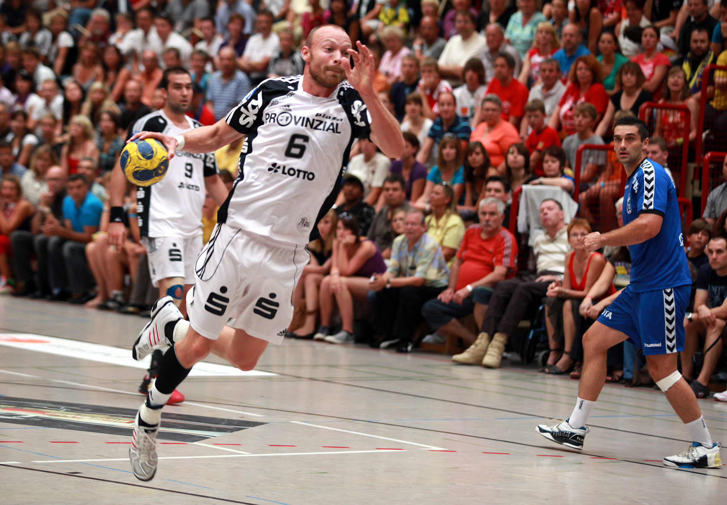 Henrik Lundström, the Swedish handball player from THW Kiel, during the Schlecker Cup 2009 in Ehingen (Germany)